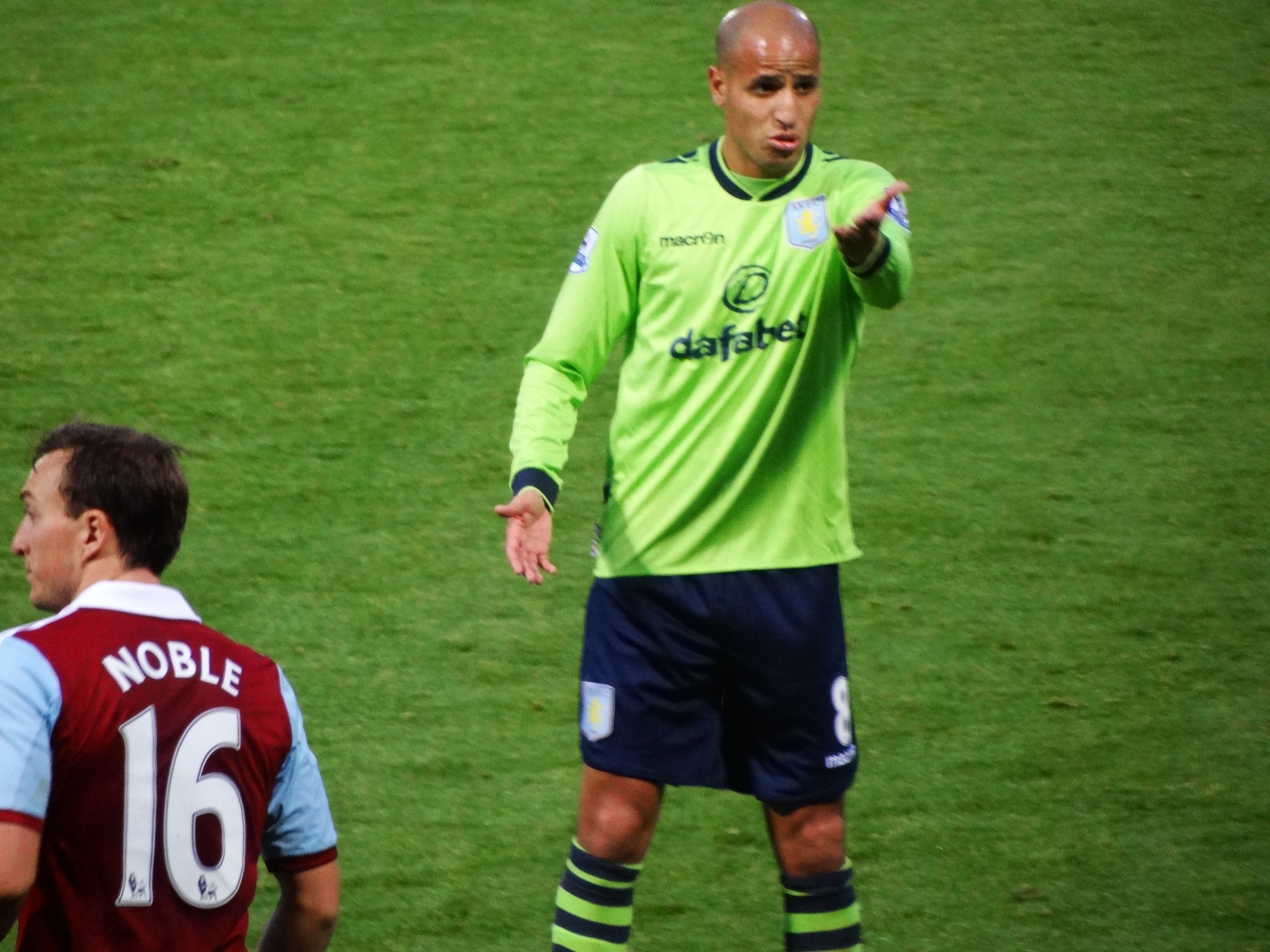 Aston Villa's Karim El Ahmadi gestures to his team-mates